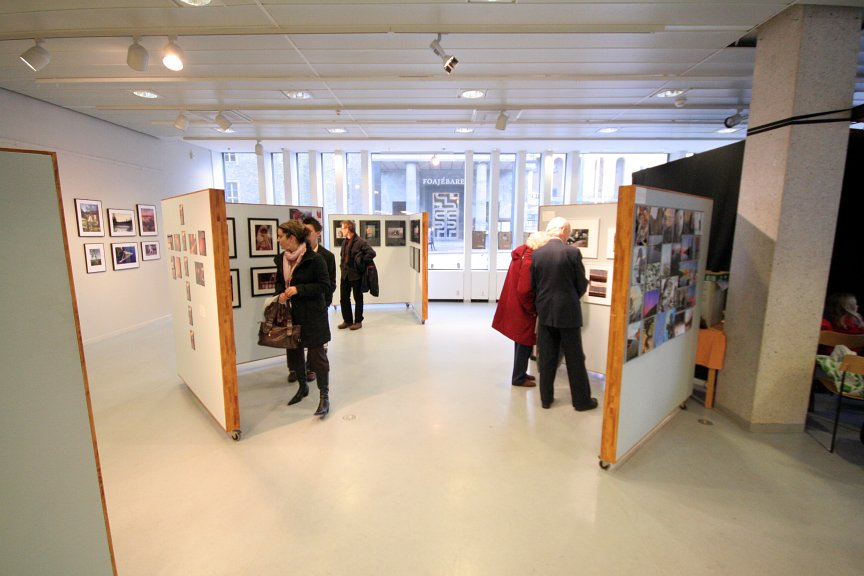 Photographic exhibition by The Photographic Society of Gothenburg at the public library in Gothenburg 2006.